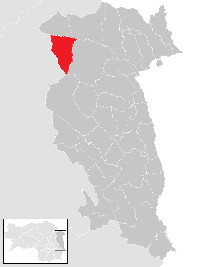 district Hartberg-Fürstenfeld